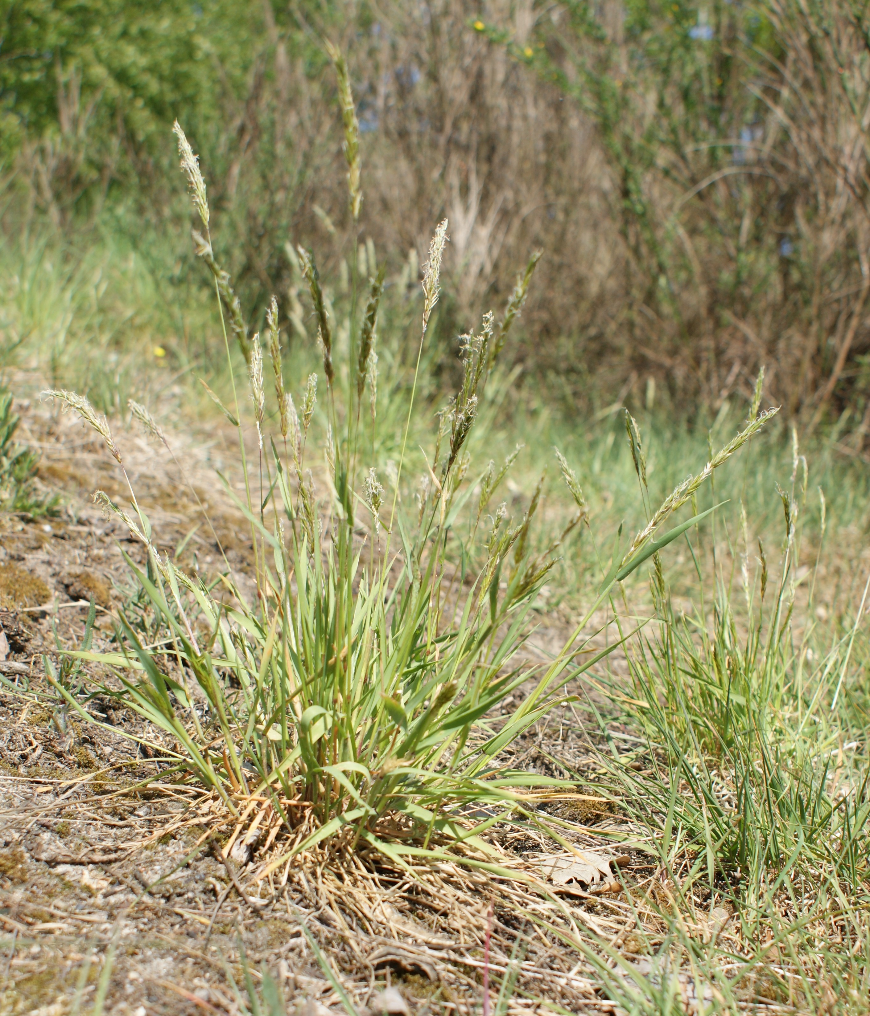 Anthoxanthum odoratum